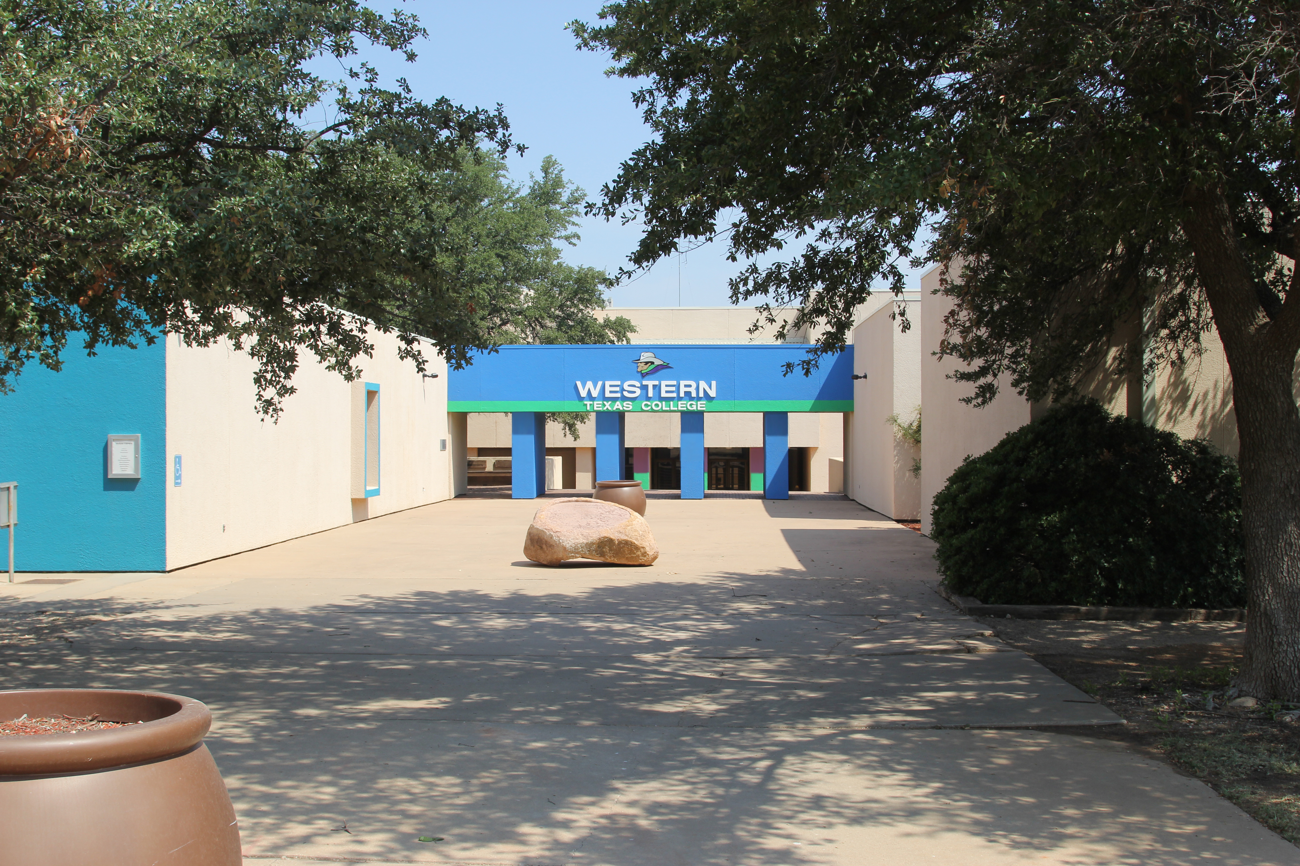 A view of the Western Texas Collge arch looking north from the south end of campus.